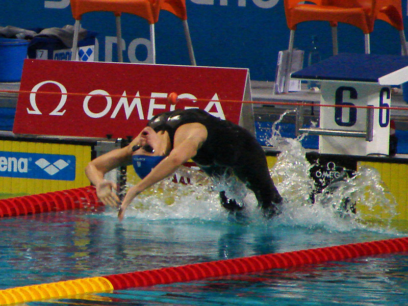 Hanna-Maria Seppälä of Finland starting from Lane 6 during the 2nd Heat of Women's 50m Backstroke at European LC Championships 2008 [1]